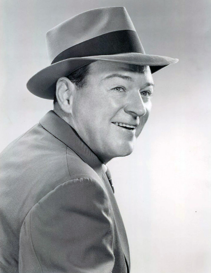 Photo of William Gargan as Barrie Craig from the radio program Barrie Craig, Confidential Investigator.